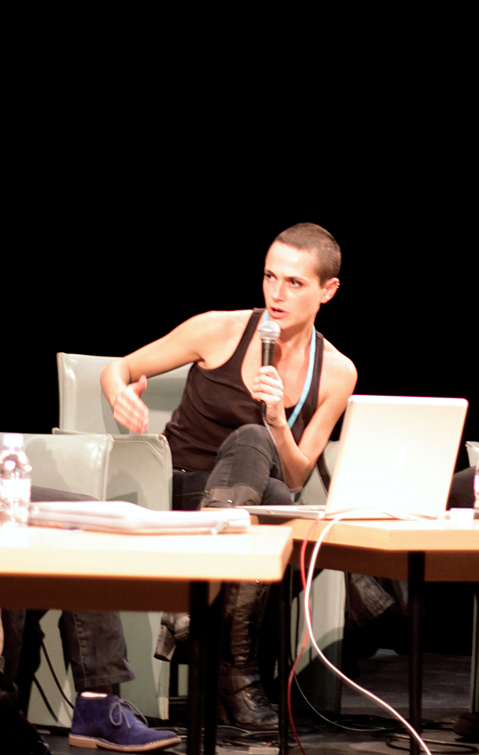 Jehanne Rousseau at Utopiales 2011 (Nantes, France).